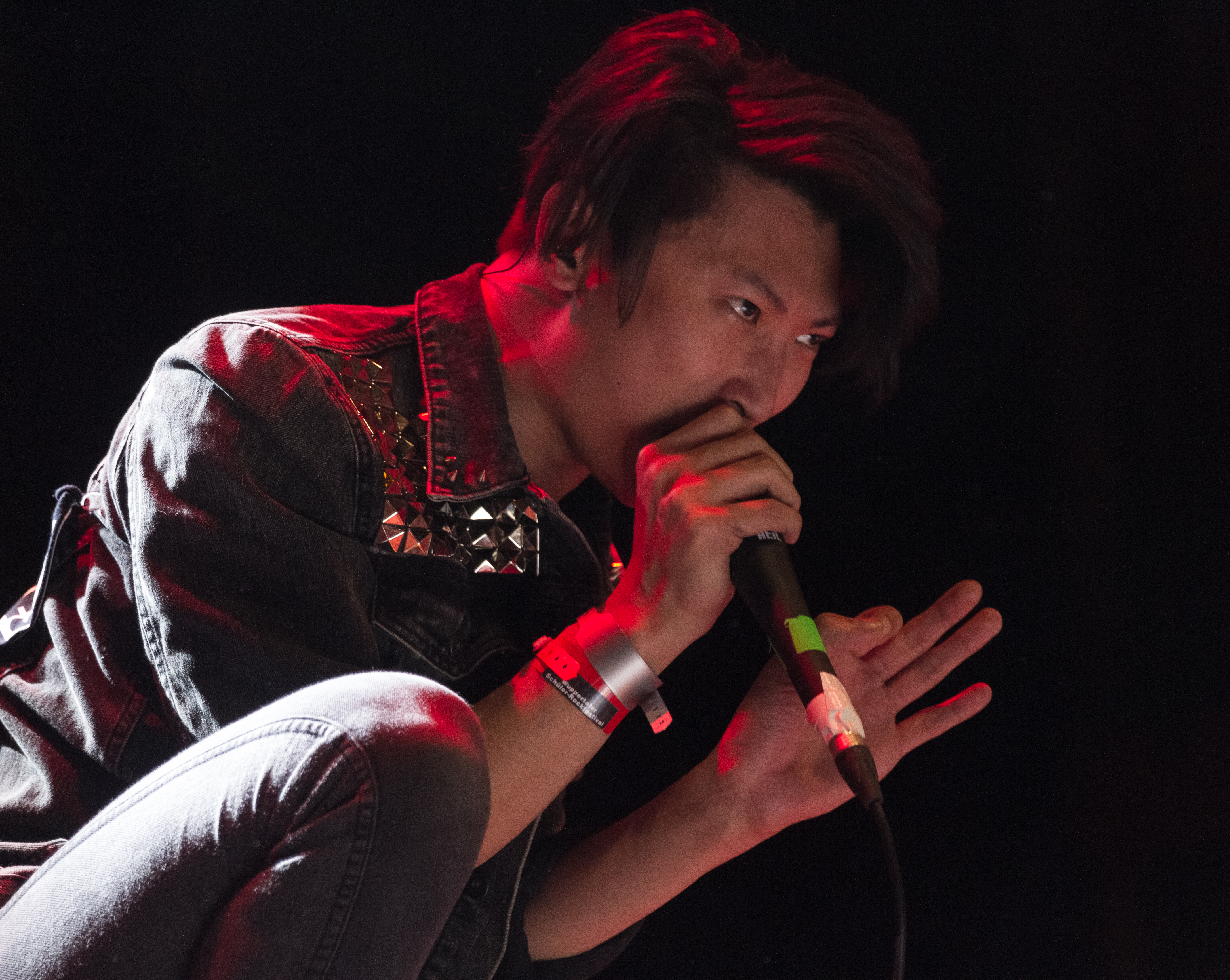 To the Rats and Wolves - Schüler Rockfestival 2015